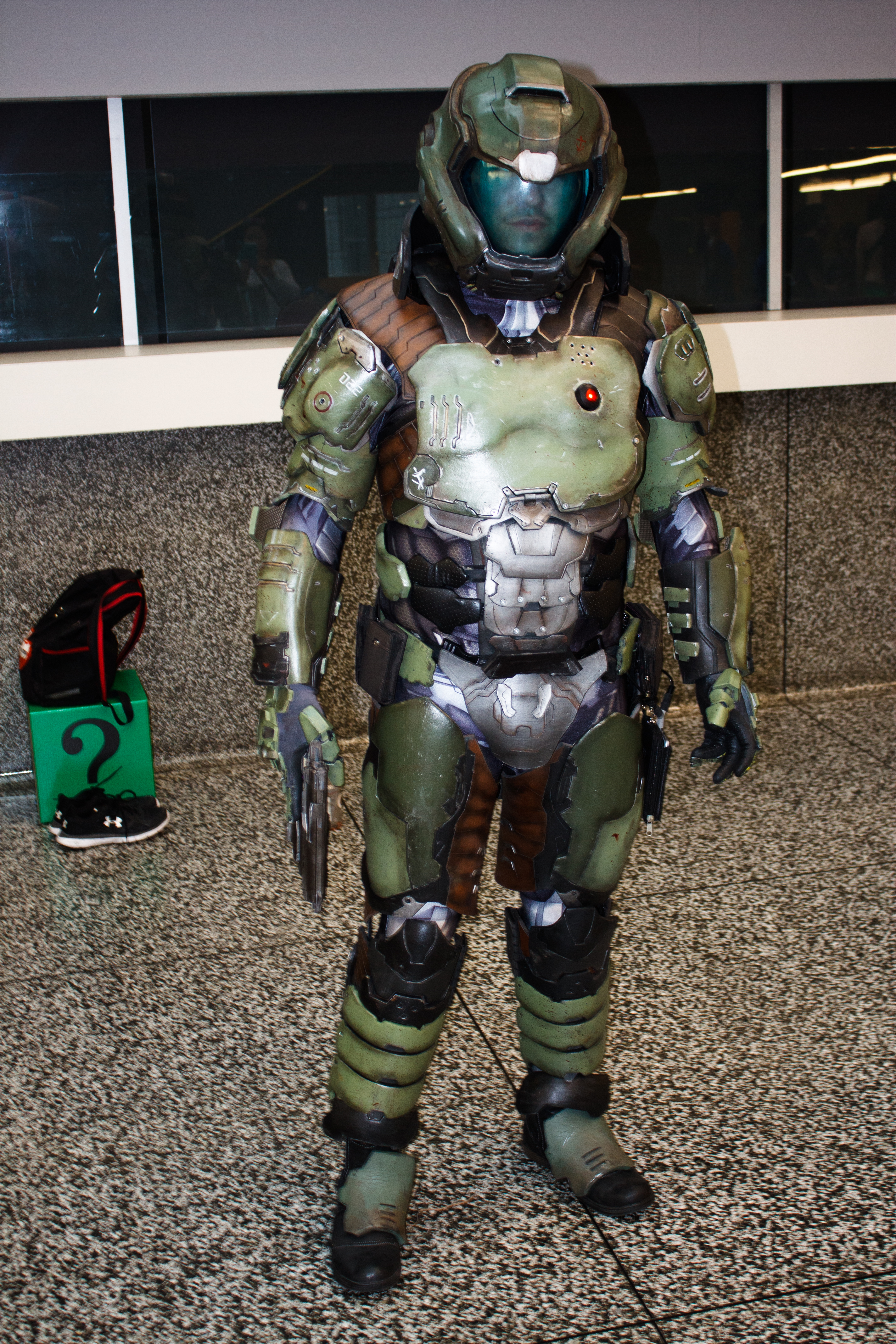 Cosplay on Sunday, day three, of the Montreal Comiccon 2016.